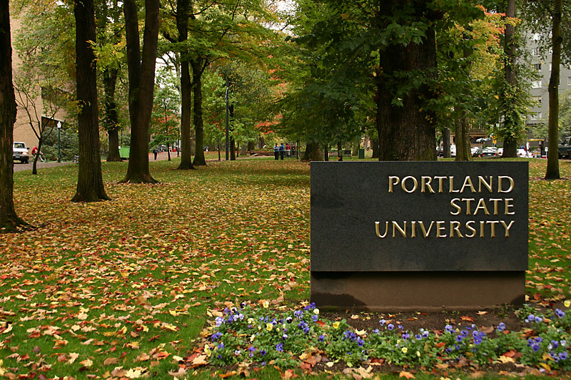 Portland State University. Kelvin Kay user:kkmd